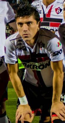 Chilean footballer Hector Mancilla